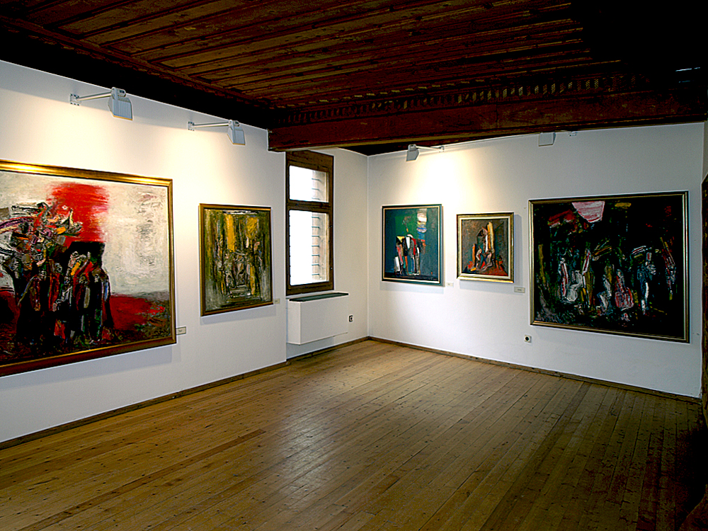 Encho Pironkov Gallery exposition, Plovdiv, Bulgaria